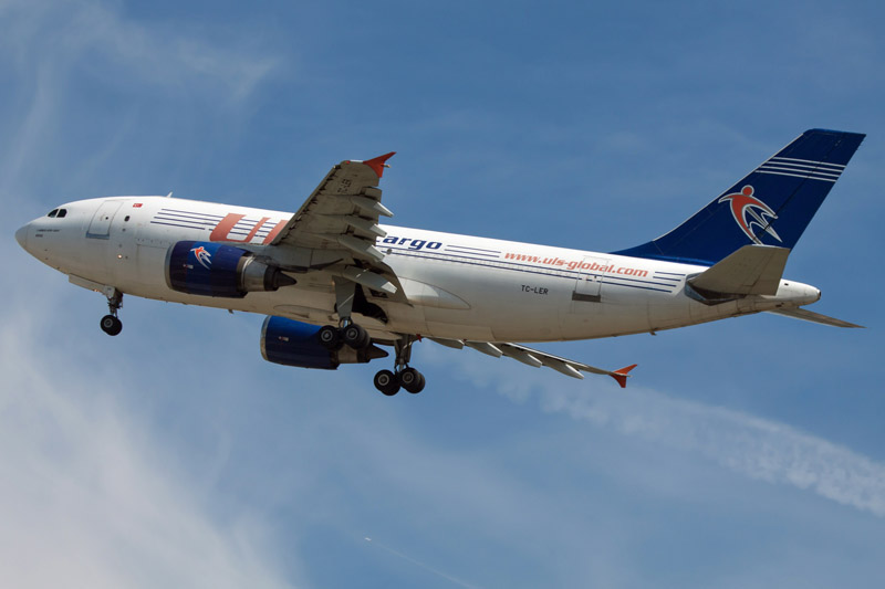 ULS Airlines Cargo Airbus A310-300